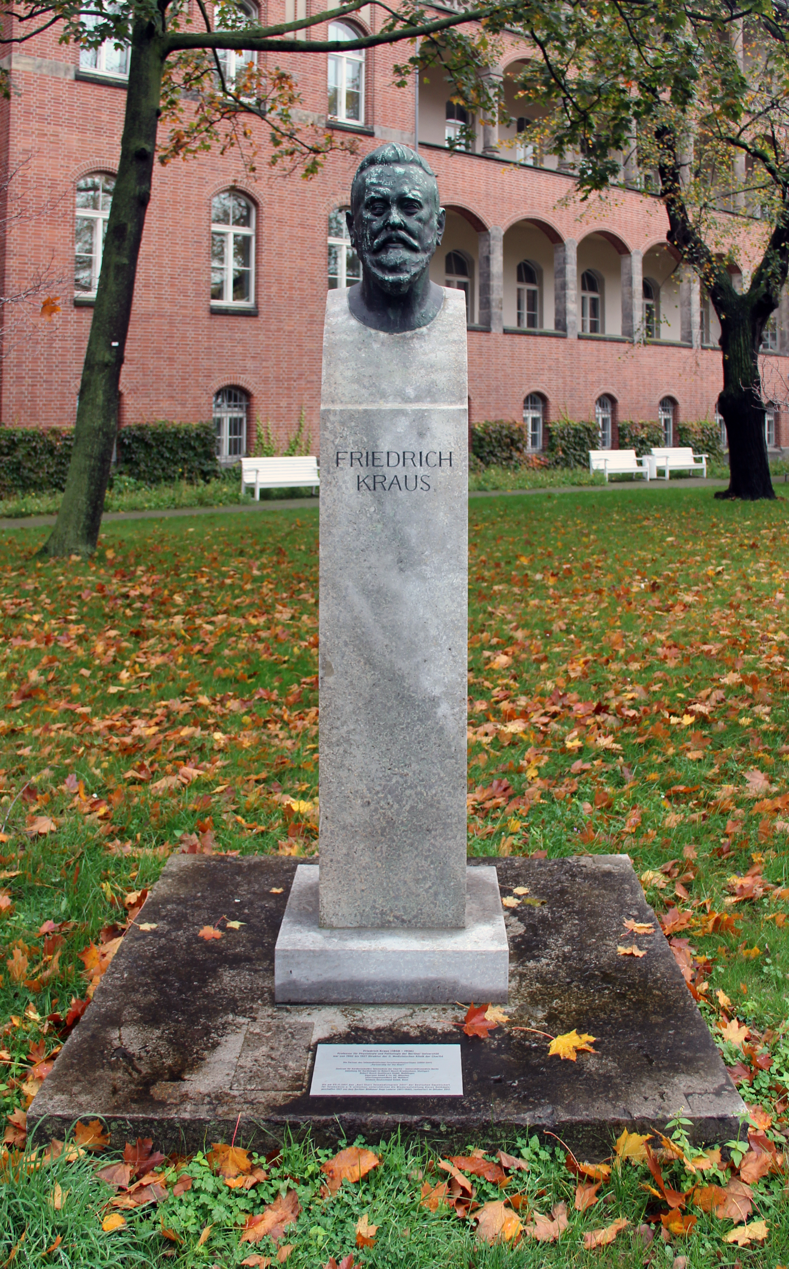 Bust, Friedrich Kraus by Hugo Lederer, 1927, Virchowweg 11, Berlin-Mitte, Germany